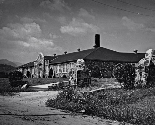 Webster School as it appeared brand new in 1936. It was constructed as a 1st-11th Grade Public School by the WPA and replaced an earlier frame structure. It is listed on the National Register of Historic Places (Webster Rock Schoolhouse).